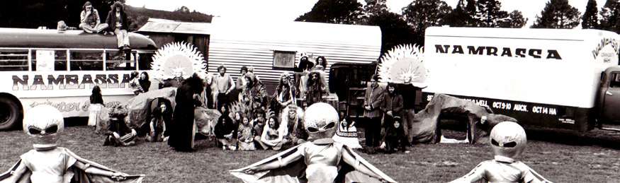 These photoes were taken by the official Nambassa photographer at the 1978 Nambassa Winter Show in New Zealand. Photographer Paul Gilbert. Uploaded by Mombas 08:23, 3 May 2007 (UTC) Summary Terms of Use: 1/ All users of this image are required to attribute this work to "Nambassa Trust and Peter Terry" and the url: " " is to acompany all use. 2/ Attribution. You must attribute the work in the manner specified by the author or licensor. 3/ For any reuse or distribution, you must make clear to others the license terms of this work. Statement by Nambassa Trust and Peter Terry